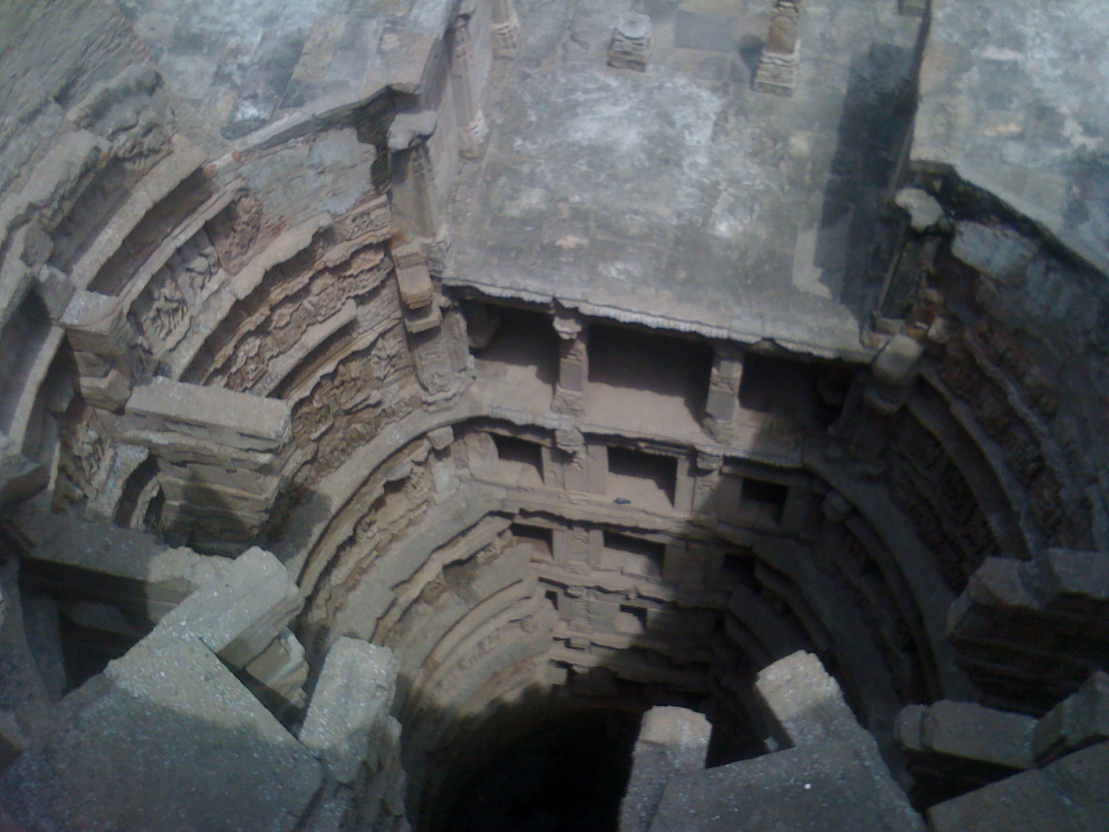 Rani-ki-vav